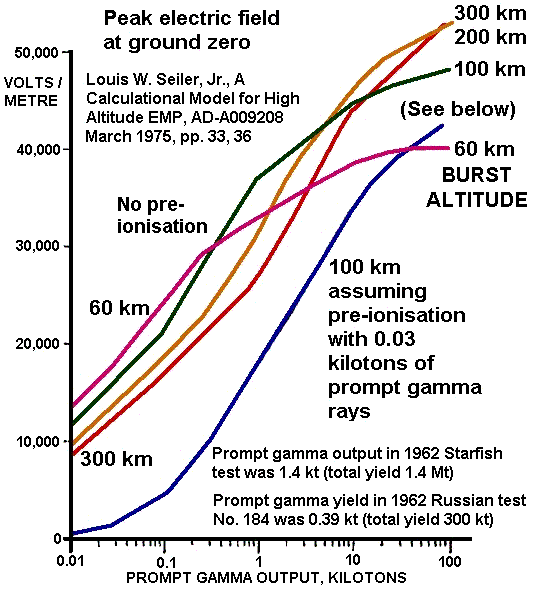 Background information on high altitude EMP from testing is from Note that the actual peak EMP at ground zero depends also on the intensity and hence the rise time of the prompt gamma rays, and the natural magnetic field strength at the altitude of interest, so these are just approximate curves. The blue pre-ionisation curve shows how gamma rays from the primary stage of a nuclear weapon can reduce the later stage EMP by partly shorting it out, via pre-ionising the high altitude atmosphere (which allows a conduction current to immediately oppose the EMP Compton current of electrons). The full facts are secret, but these unclassified curves give a good idea of how bomb yield and burst altitude influence the maximum peak EMP on the earth's surface.